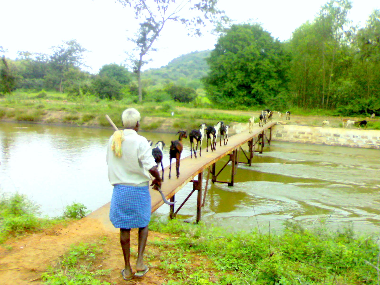 Shepherd with his goats cross the Mullai Periyar river in Sembukudipatti near Madurai.